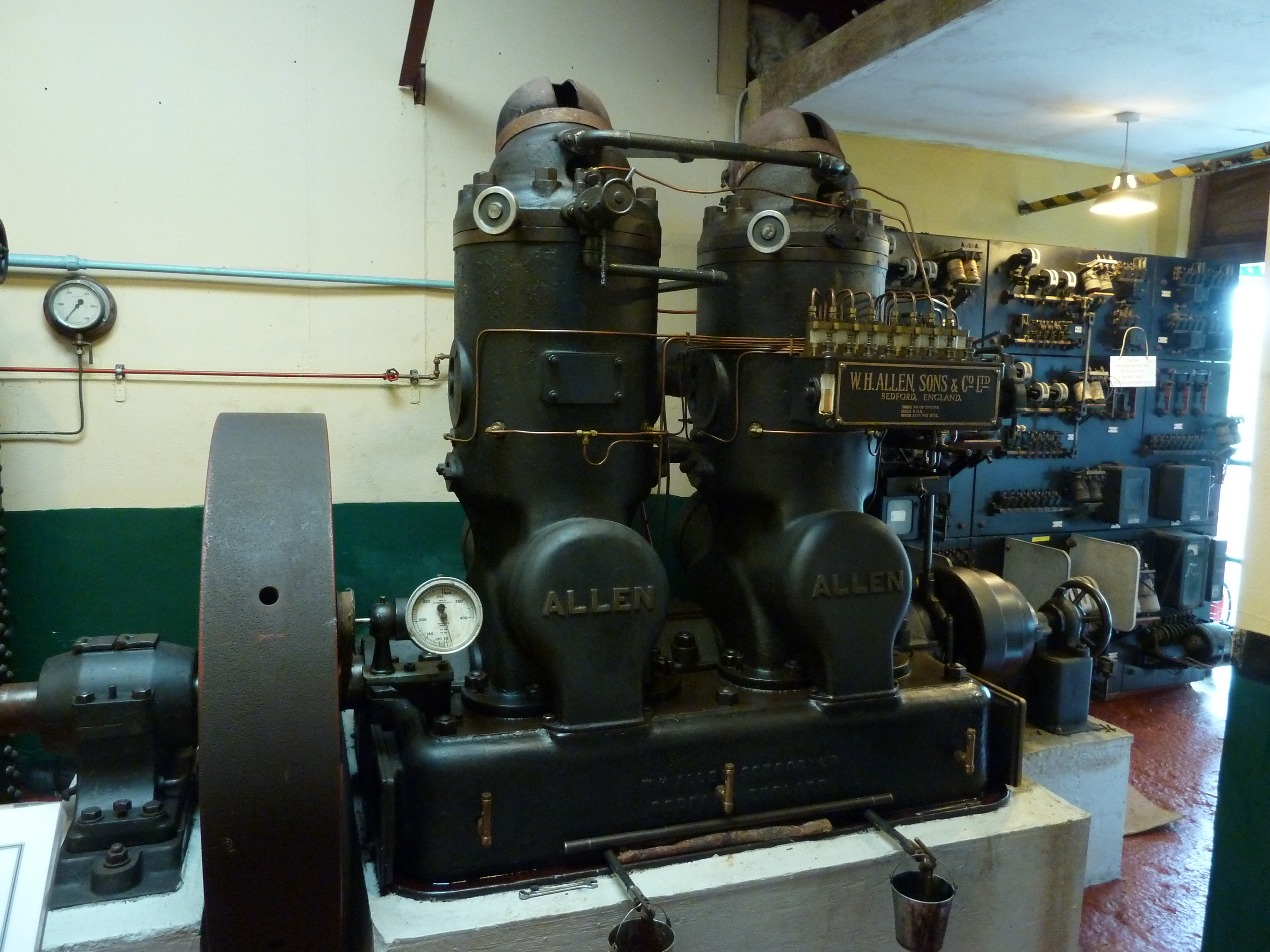 Allen 70 hp semidiesel or 'hot bulb' two-stroke diesel engine. Built c. 1927. Originally working at a pumping station in Lincolnshire. Now on display at the Internal Fire museum.